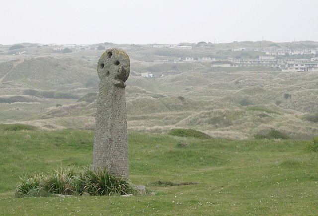 St Piran's Cross. St Piran is the National Saint of Cornwall and the Patron Saint of Tin Miners. Visit for more about St Piran. Beyond the cross, this photograph looks south west across the dunes of Penhale Sands to Perran Sands Holiday Village.